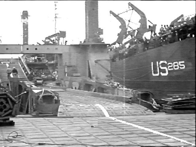 United States Navy tank landing ship USS LST-285 moored at the artificial harbor at Normandy